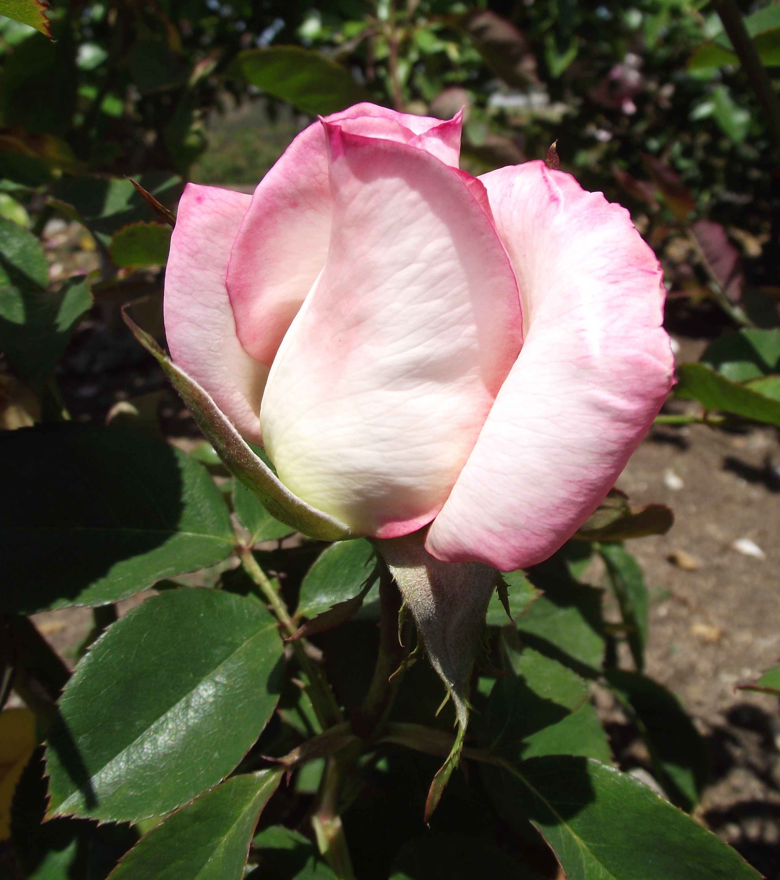 Rosa 'Secret' in the Inez Grant Parker Memorial Rose Garden, Balboa Park, San Diego, California, USA.